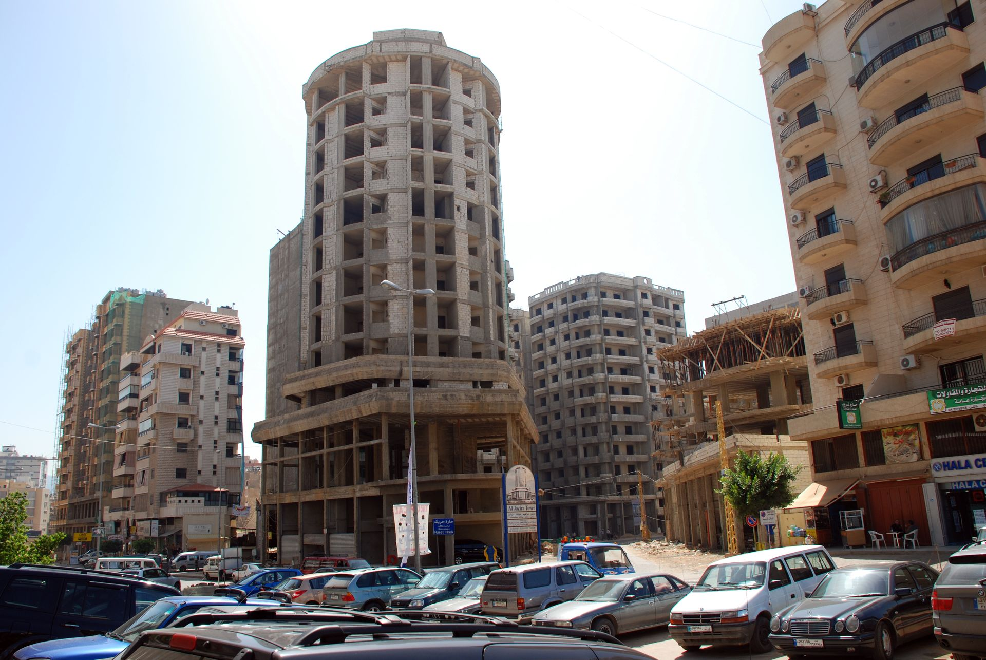 Haret Hreyk, south Beirut